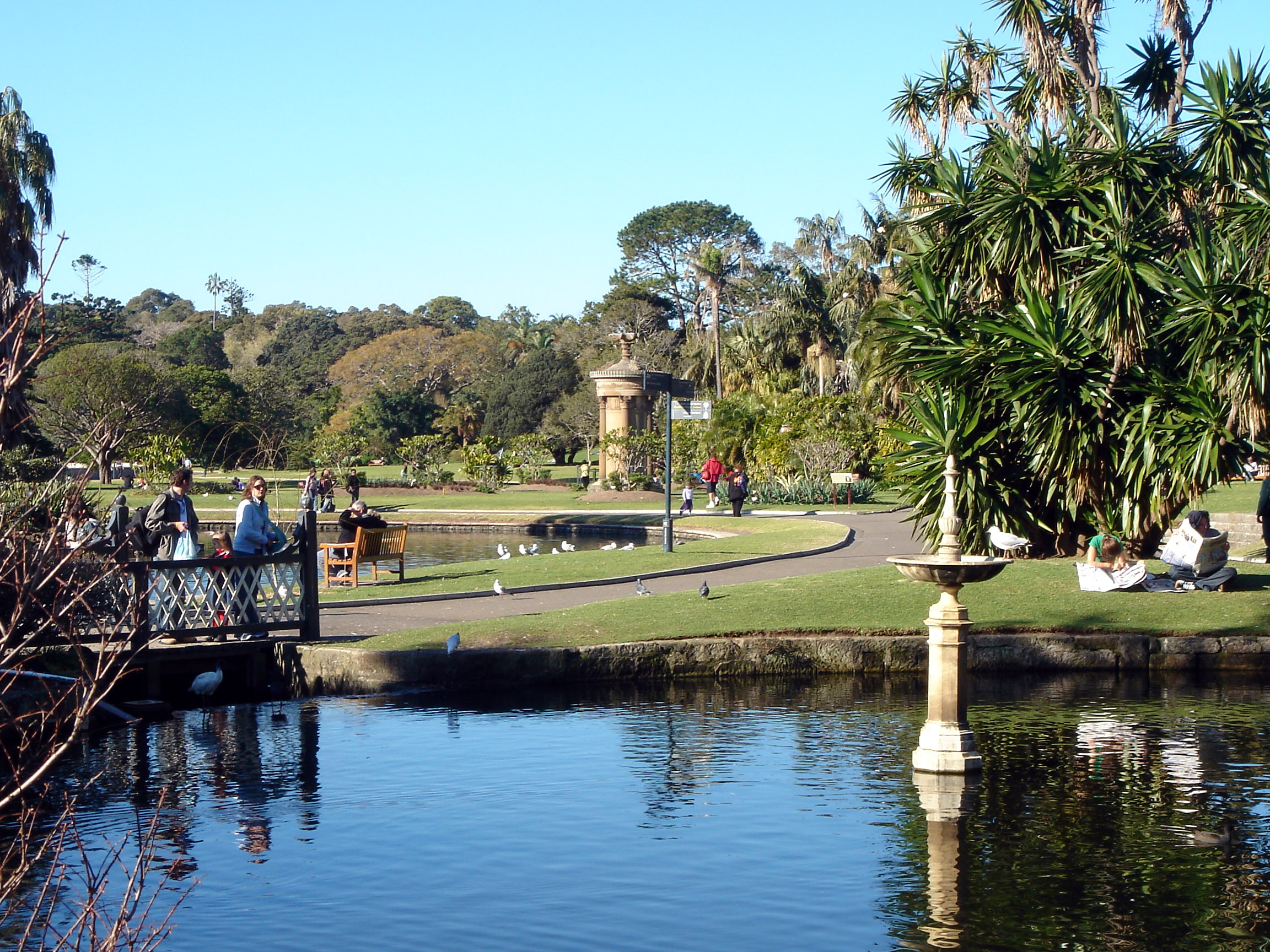 Royal Botanic Gardens, Sydney